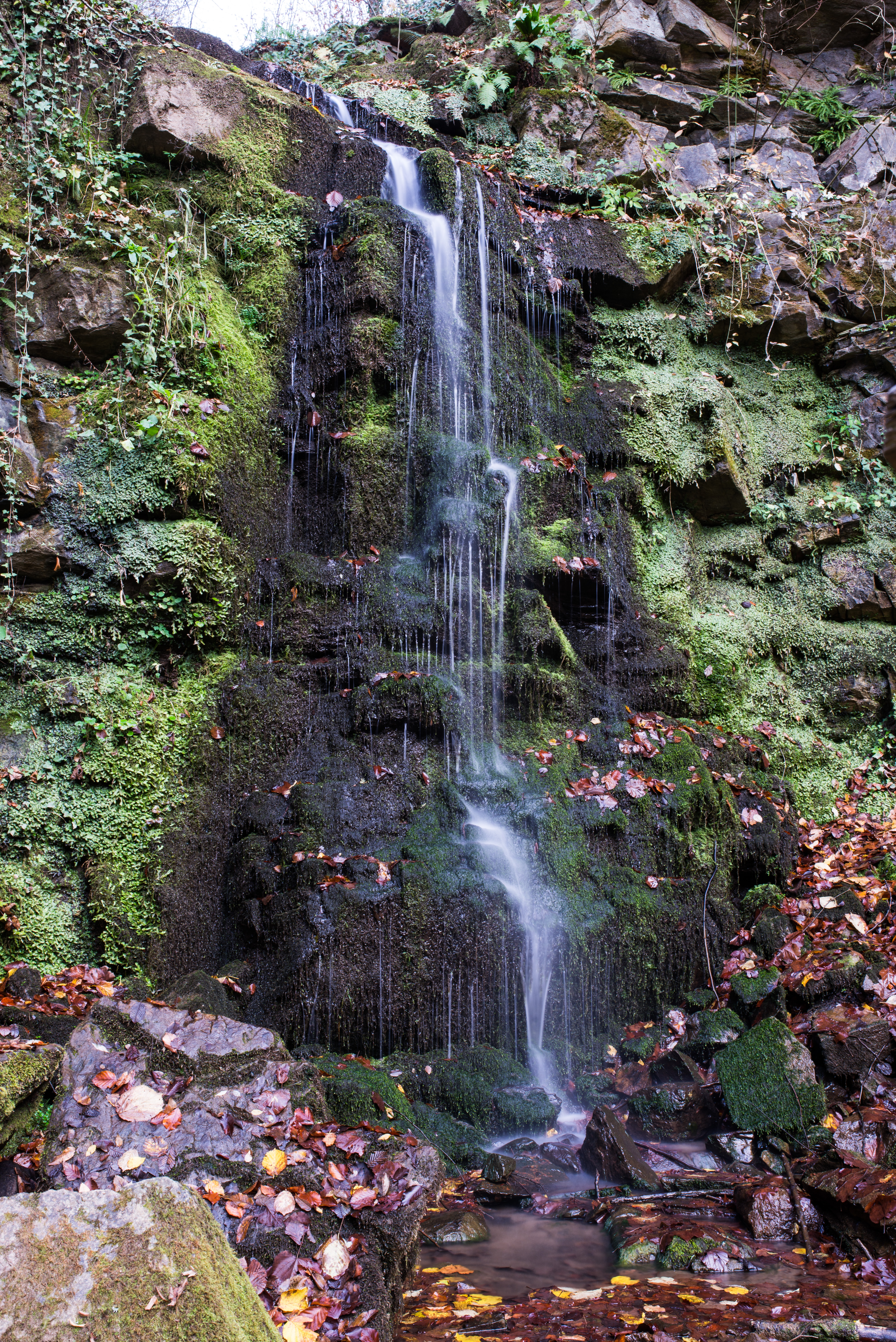 Corov waterfall. Srpski (latinica): Ćorov vodopad u ataru sela Petrilja.